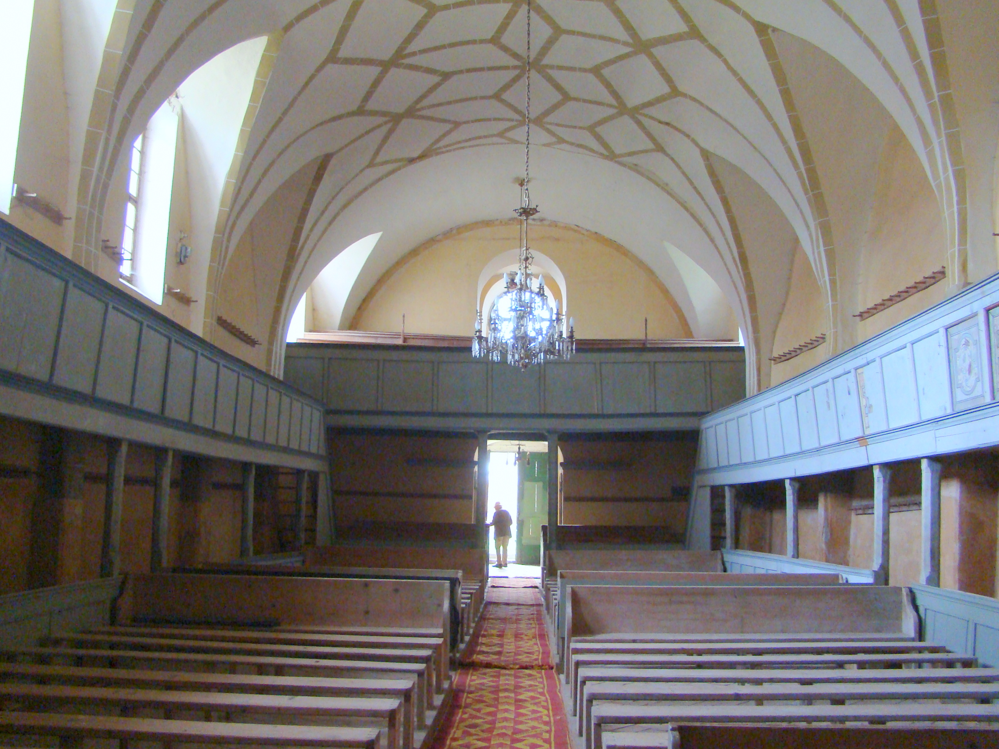 Fortified church in Dacia, Brașov County, Romania